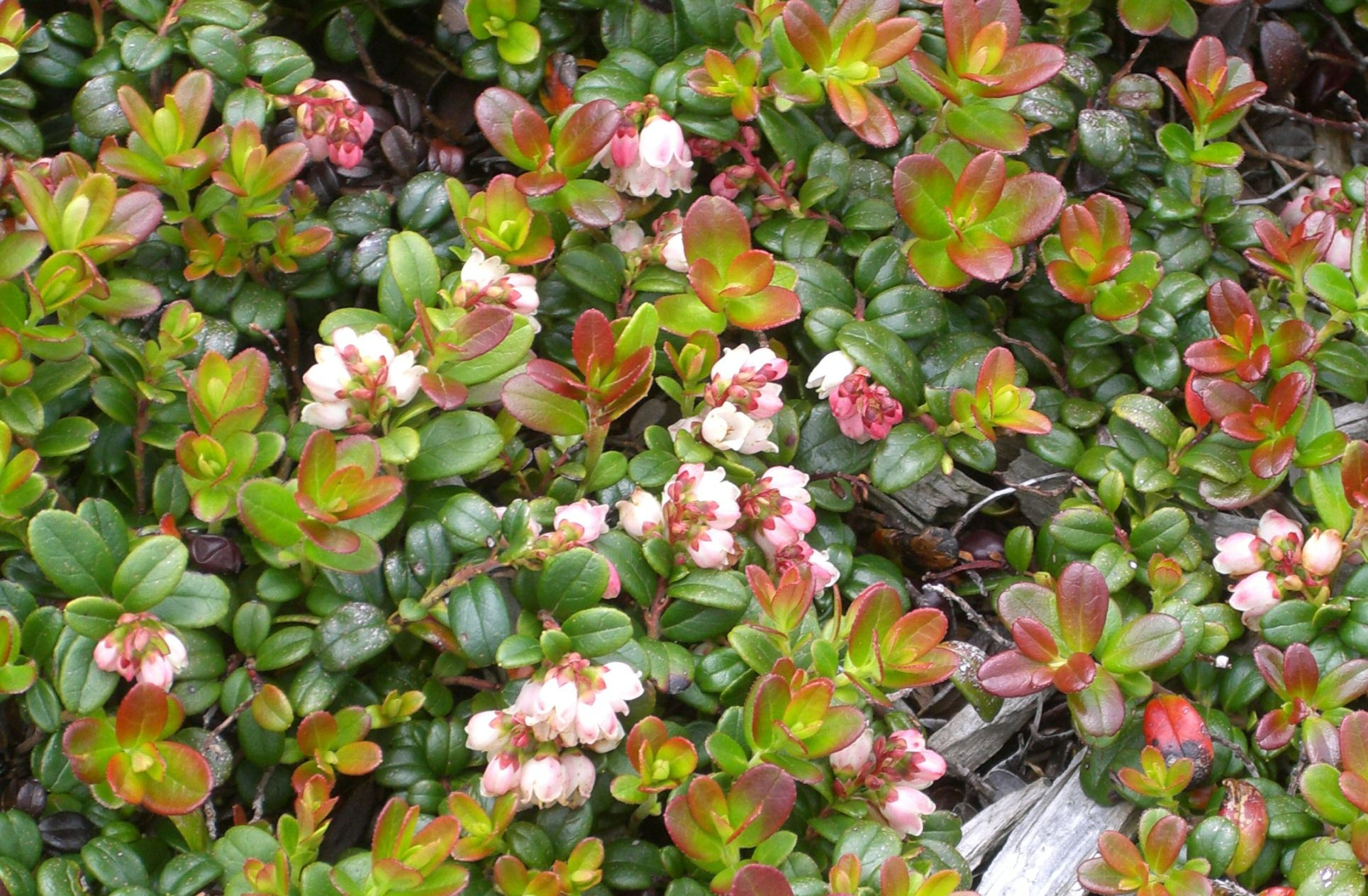 Vaccinium_vitisidaea flower at Daisetsu-zan 大雪山のコケモモの花